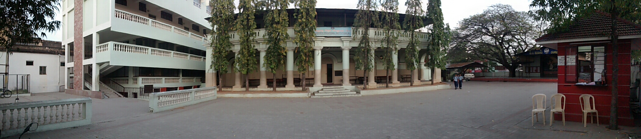 Panoramic view Sadvidya Educational Institutions.